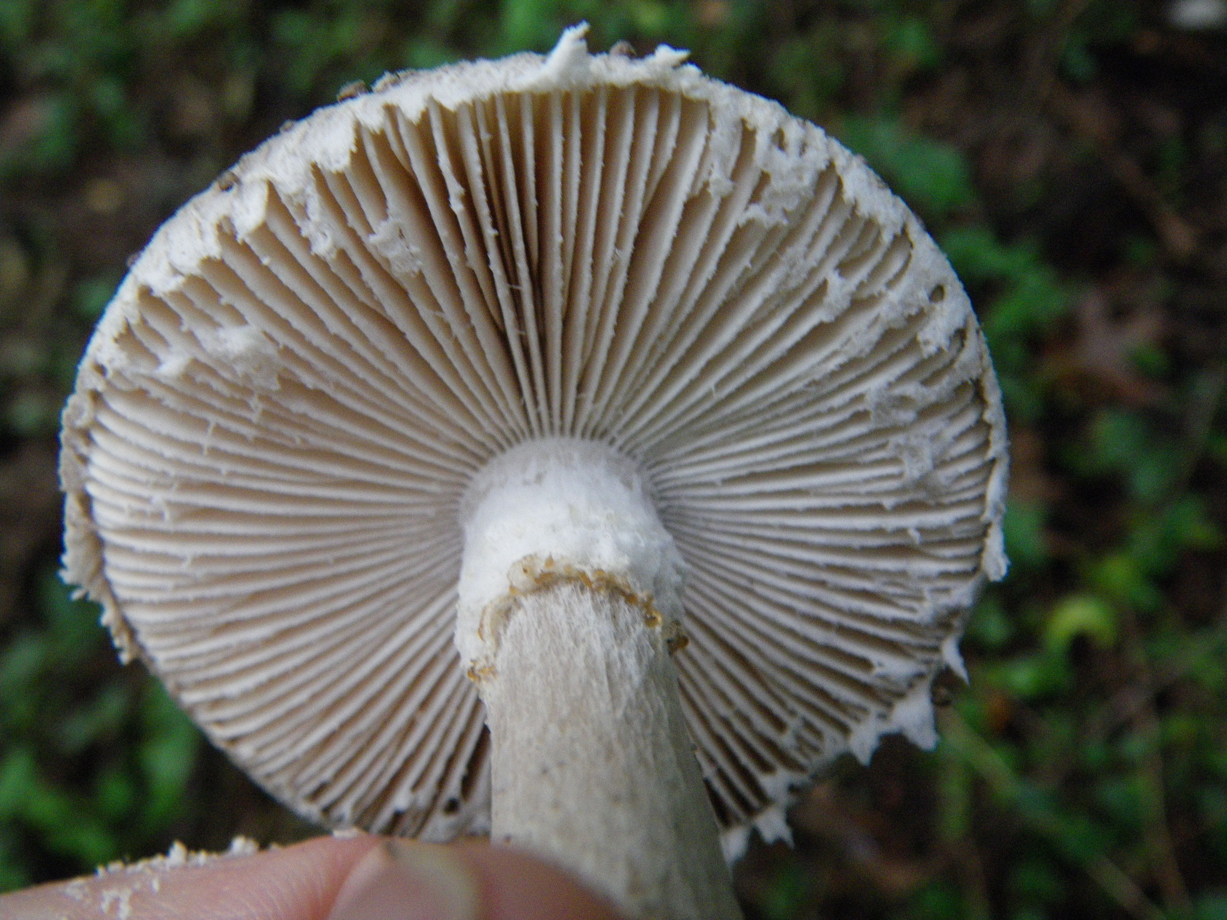 The mushroom Amanita onusta (Howe) Sacc. Photographed in Kent Park, Delaware County, Pennsylvania, USA. For more information about this, see the observation page at Mushroom Observer.